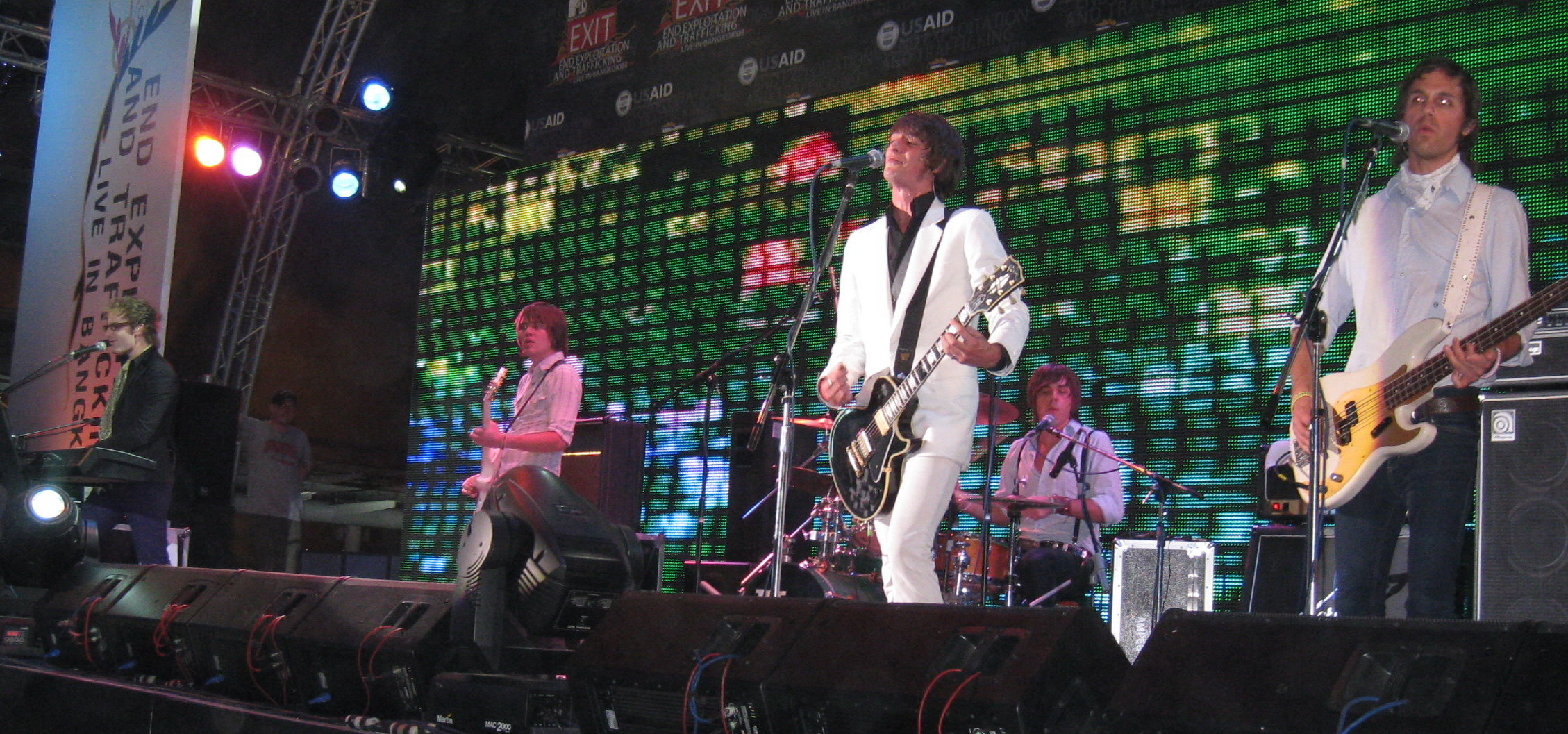 The Click Five at MTV Exit Live in BKK.